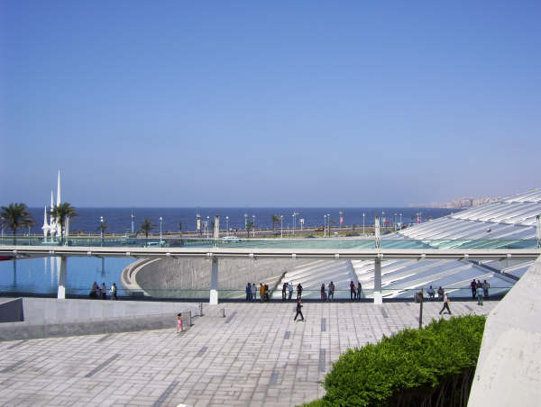 Shot viewing Bibliotheca from the outside taken from second floor cafe